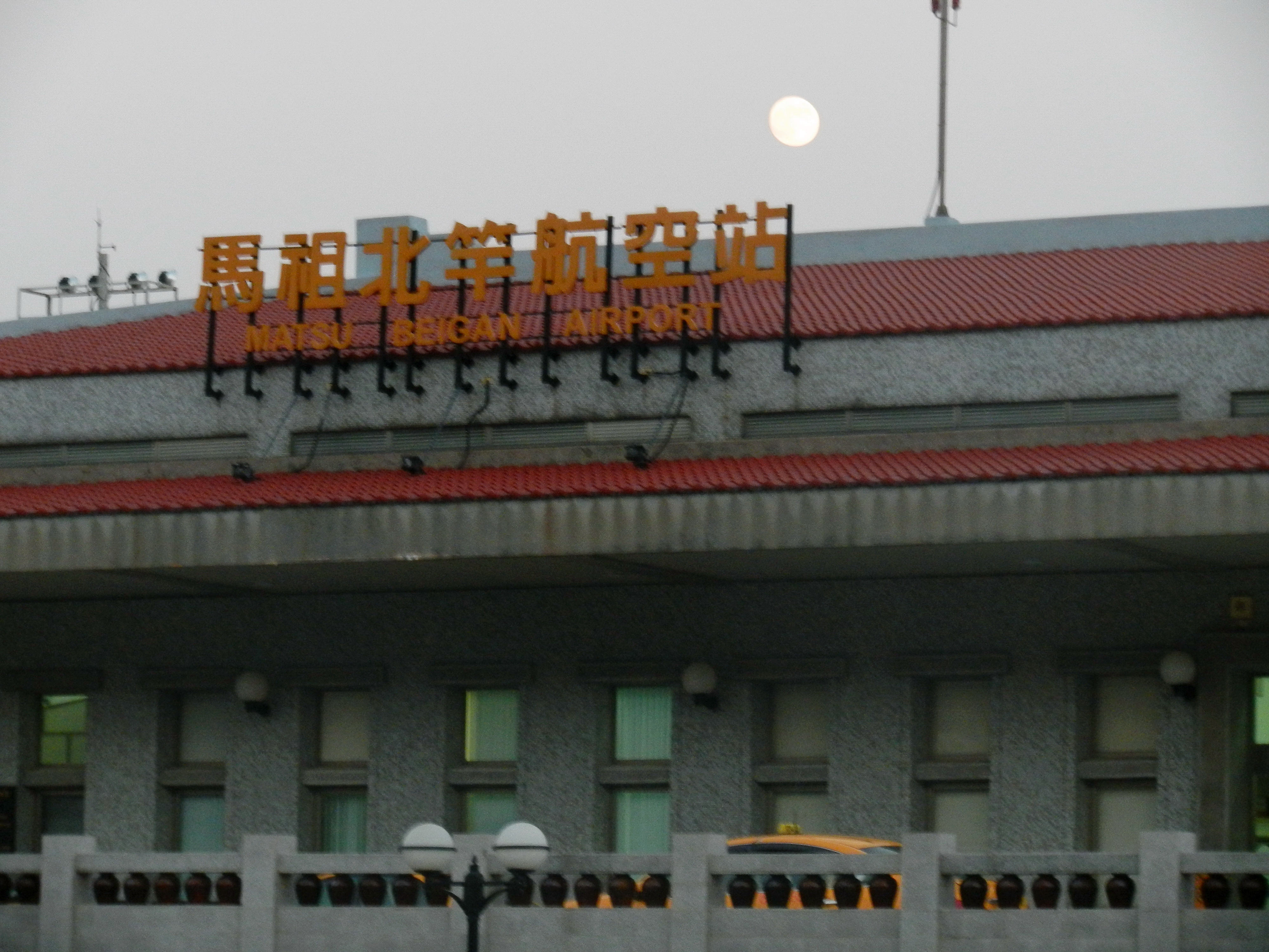 Matsu Beigan Airport中文（台灣）: 馬祖北竿機場